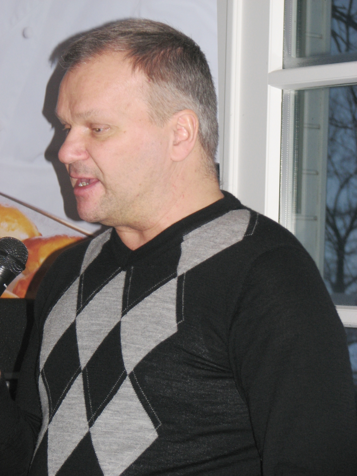 Küllo Arjakas is Estonian historian and politician.